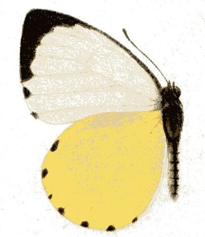 SeitzFaunaAfricanaXIII Appias lasti (Grose-Smith, 1889)